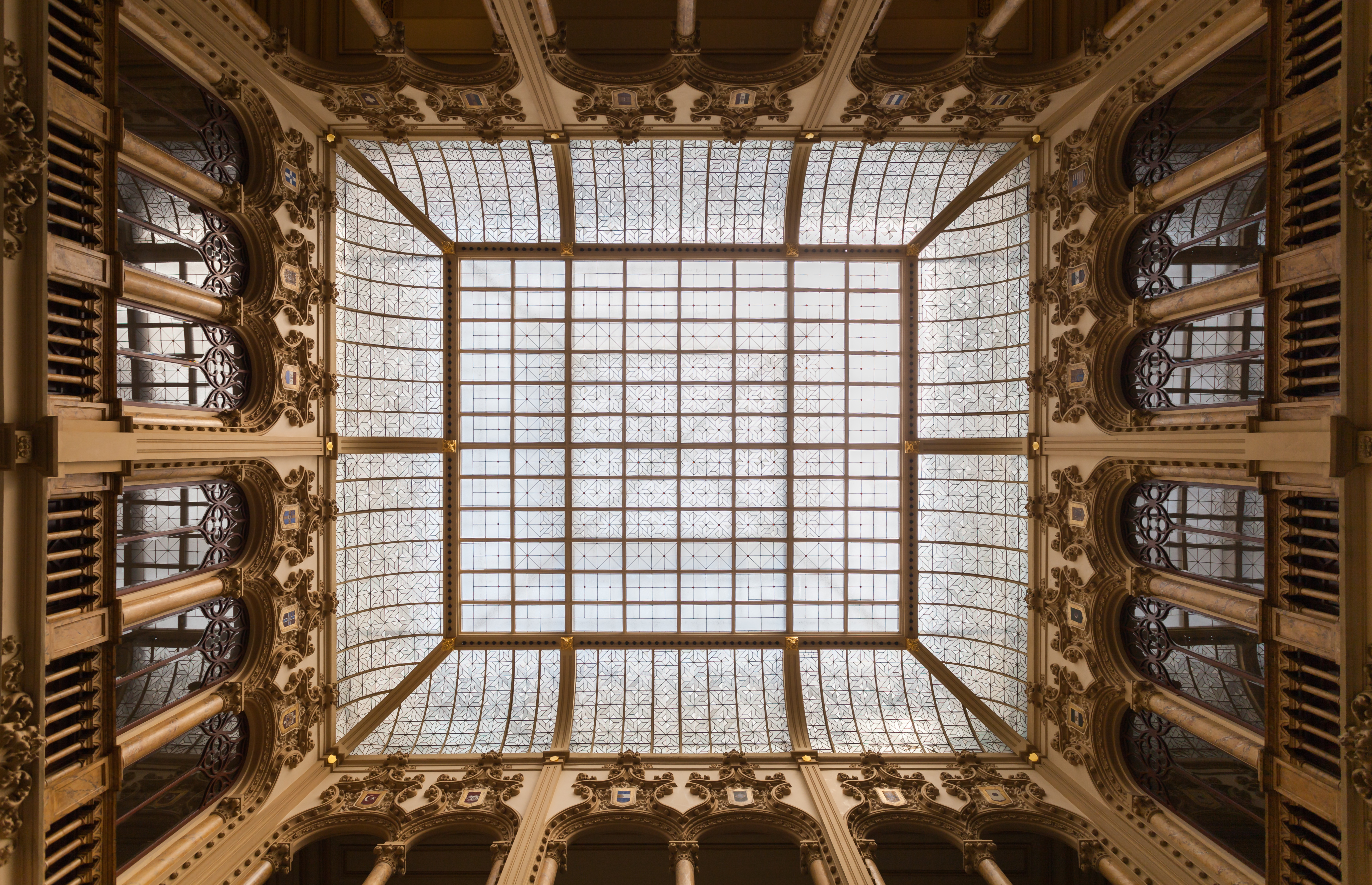 Interior view of the glass ceiling of the courtyard of the Postal Palace, Mexico City (Mexico). The building was built at the beginning of the 20th century, when the Post Office became a separate government entity in Mexico. Its design and construction back then was the most modern of the time. In the 1950s, the building was modified and its structure was affected, so when the 1985 earthquake struck Mexico City, this building was heavily damaged, undergoing restoration works in the 1990s.